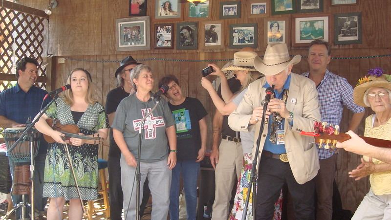 Musicians performing at Mary Jo's Pancake Breakfast at the 2015 Woody Guthrie Folk Festival.